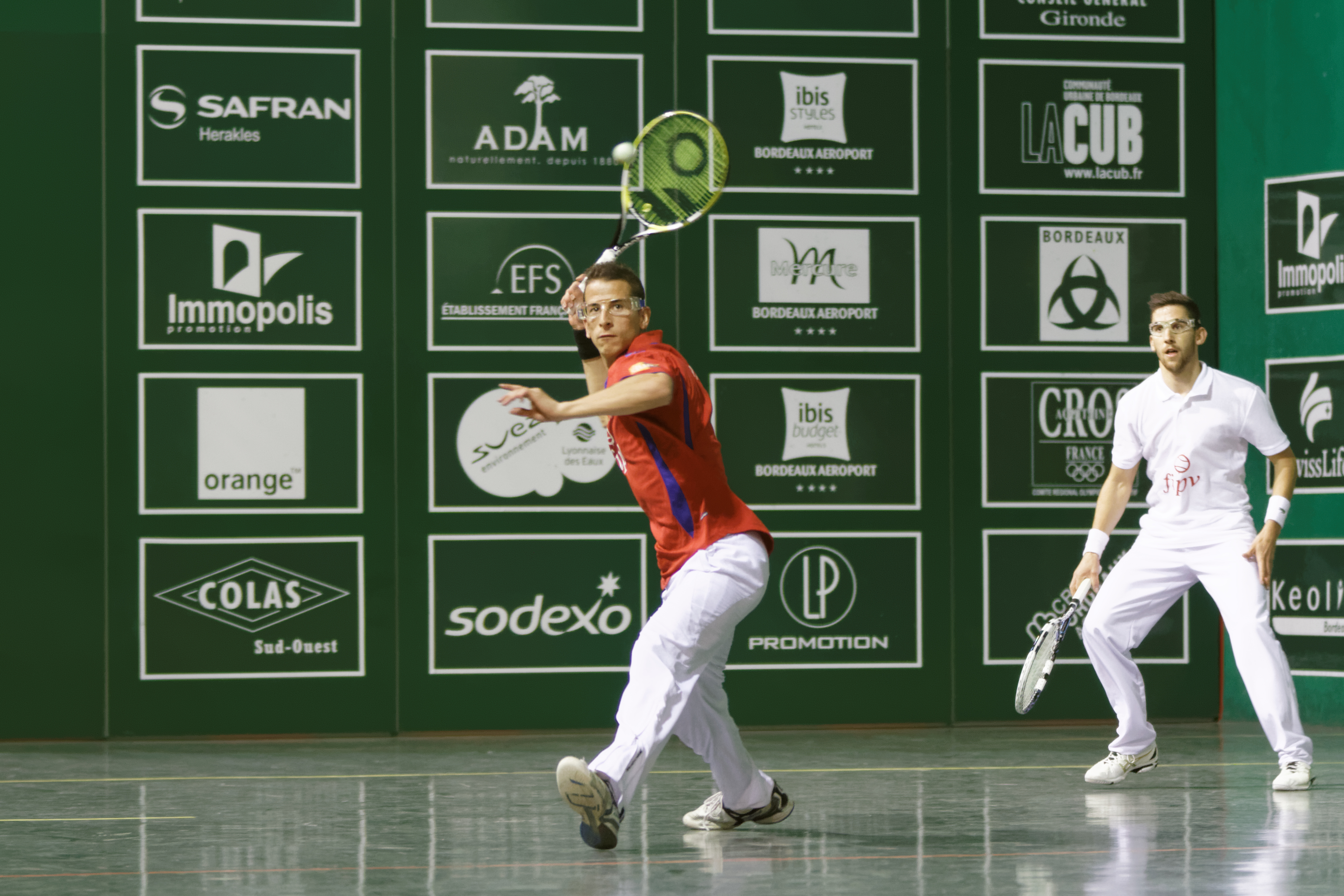 2013 Basque Pelota World Cup, 27th October - 2 November 2013, Le Haillan, France. Frontenis. France (Alexandre Jany - Kevin Pucheux) vs Spain (Iván Martinez - Oliver Martinez).